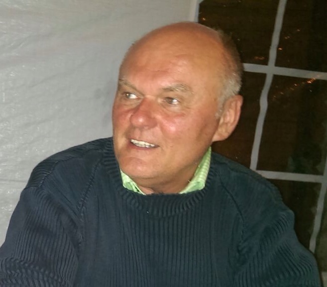 picture of Conny